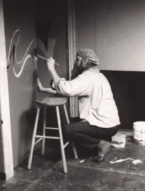 Vivian Longfellow of the Thekla